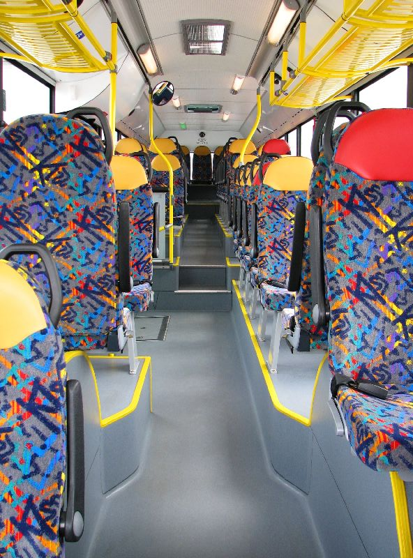 Solaris Urbino 15 LE.